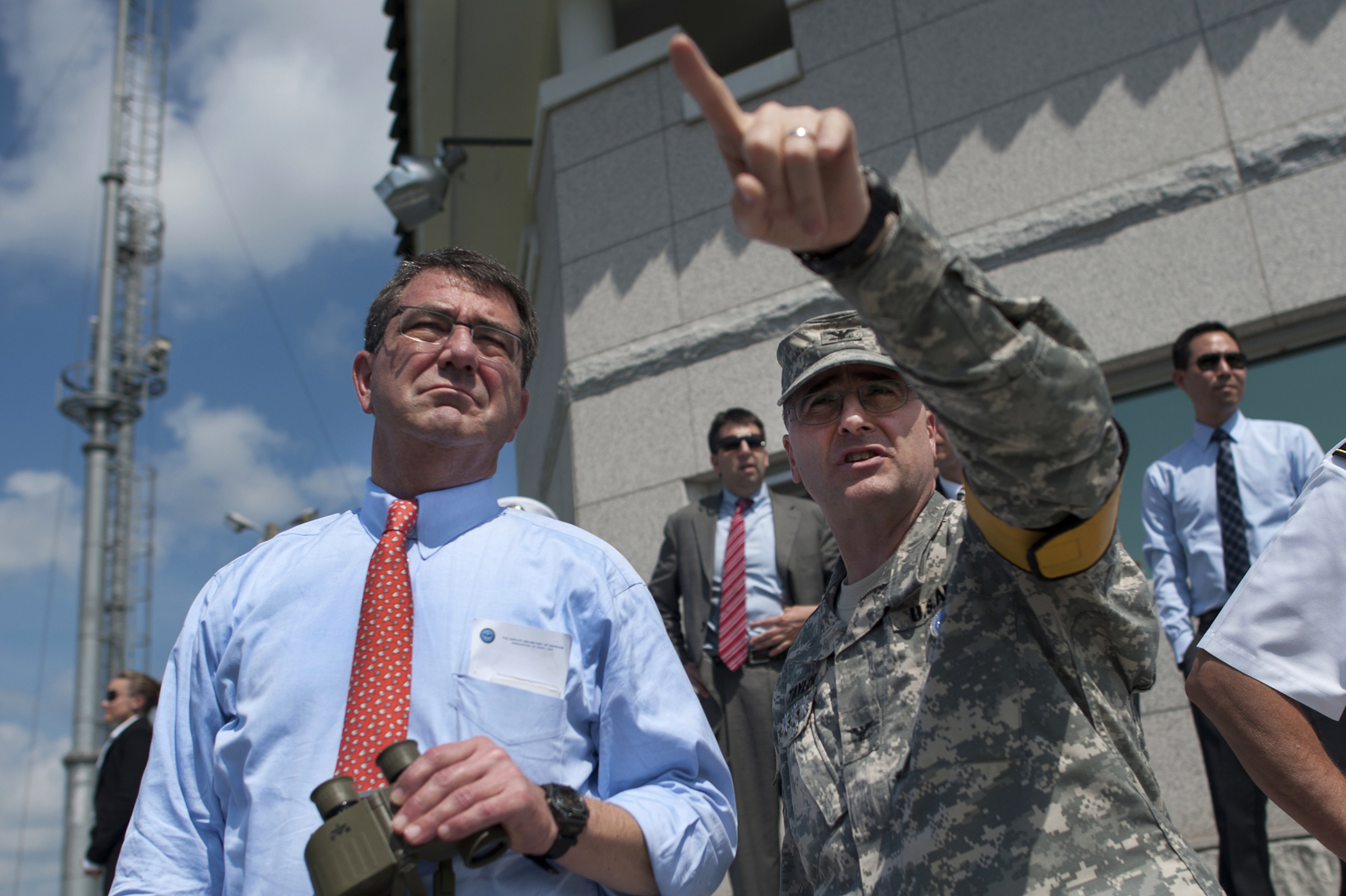 U.S. Army Col. Kurt Taylor, U.N. Command Military Armistice Commission secretariat, points out features of the demilitarized zone separating North and South Korea to U.S. Deputy Defense Secretary Ashton B. Carter during a visit to the border village of Panmunjom, July 26, 2012.